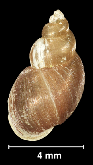 Photo of abapertural view of a shell of Galba schirazensis. Specimen with the height of the shell 7.10 mm, from Albufera of Valencia, Valencia province, Spain.